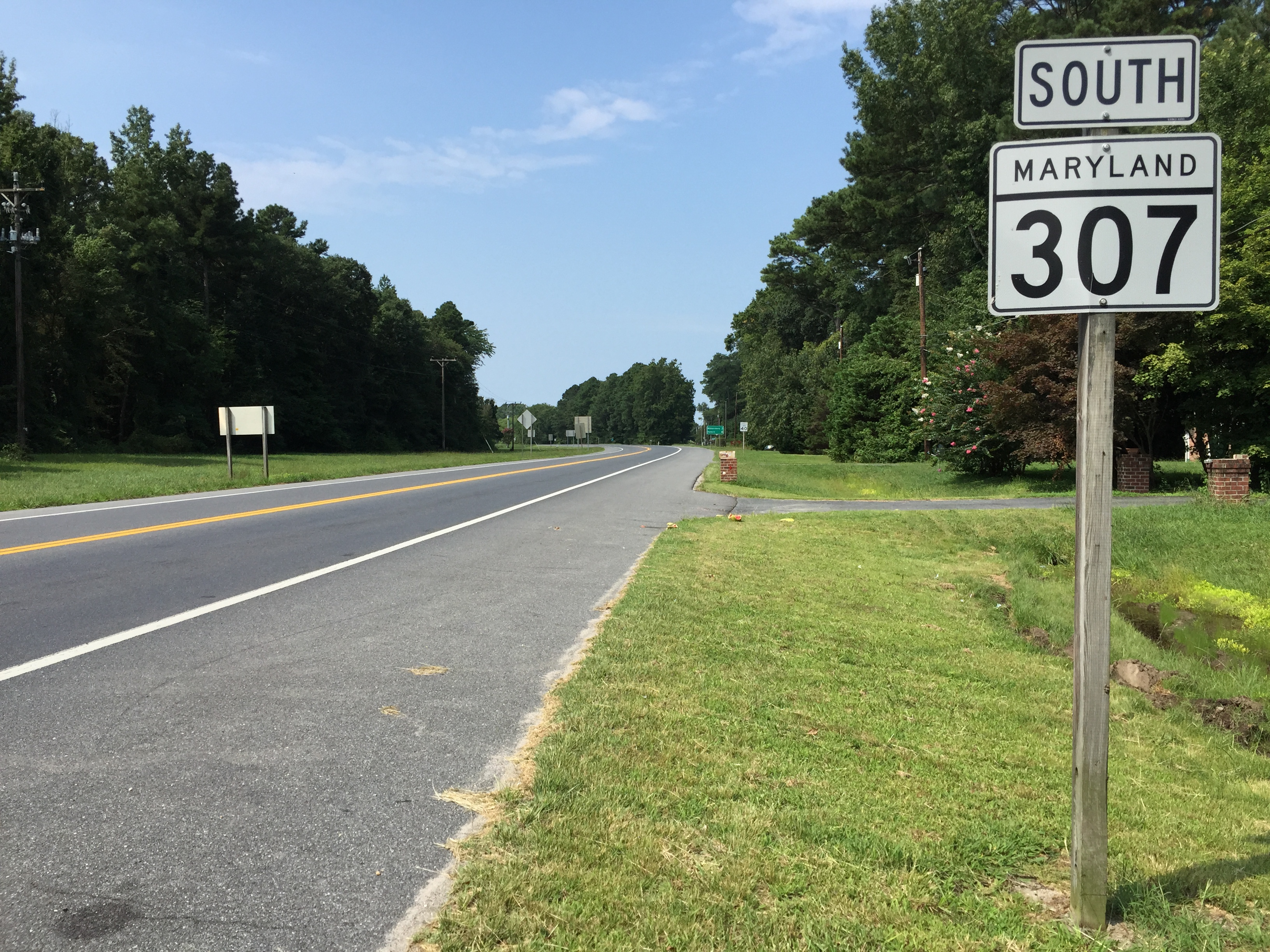 View south along Maryland State Route 307 (Williamsburg Road) at Maryland State Route 313 and Maryland State Route 318 (Federalsburg Highway) just southwest of Federalsburg in southern Caroline County, Maryland